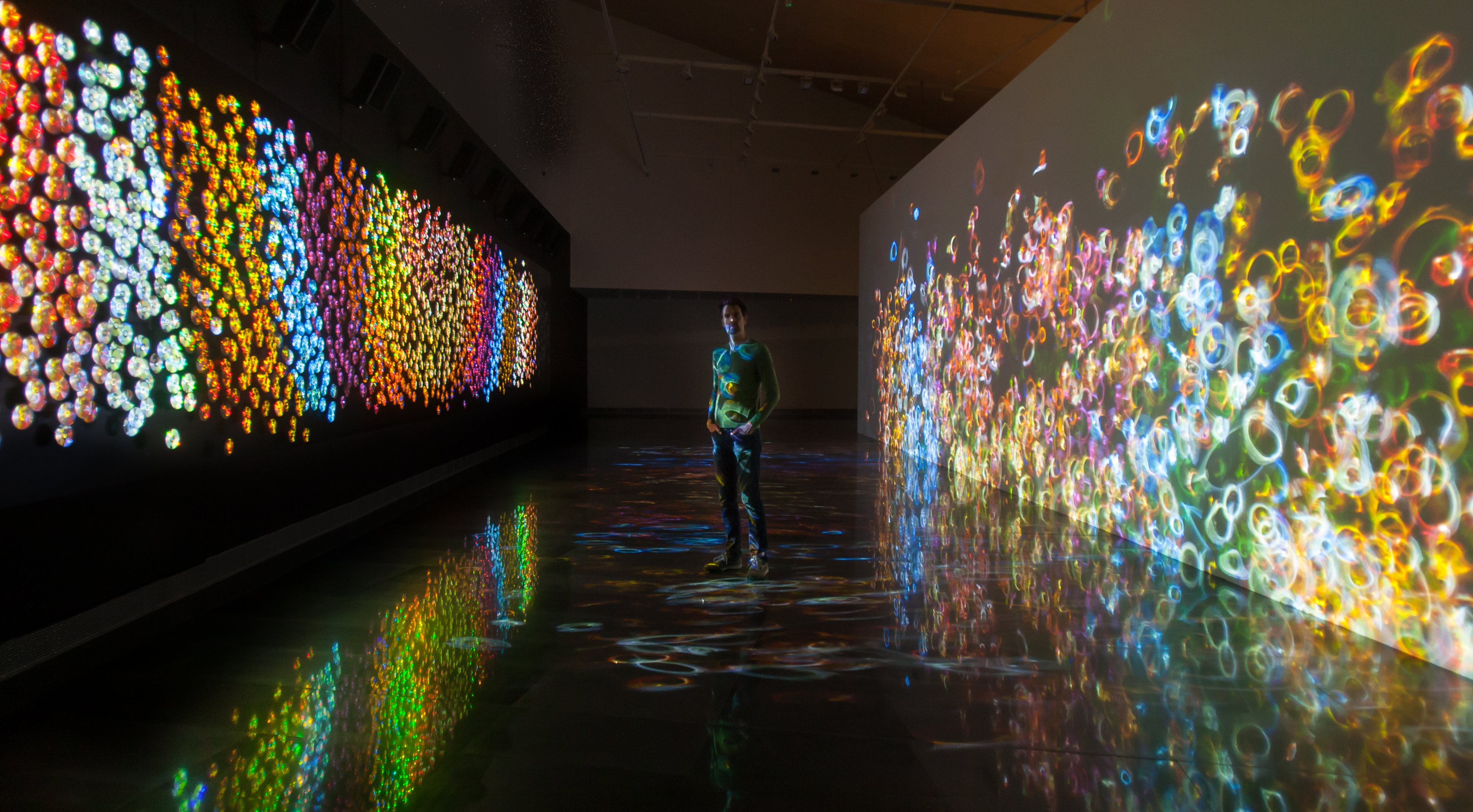 Artistic installation created by Daniel Canogar in 2017 titled "Sikka Ingentium"